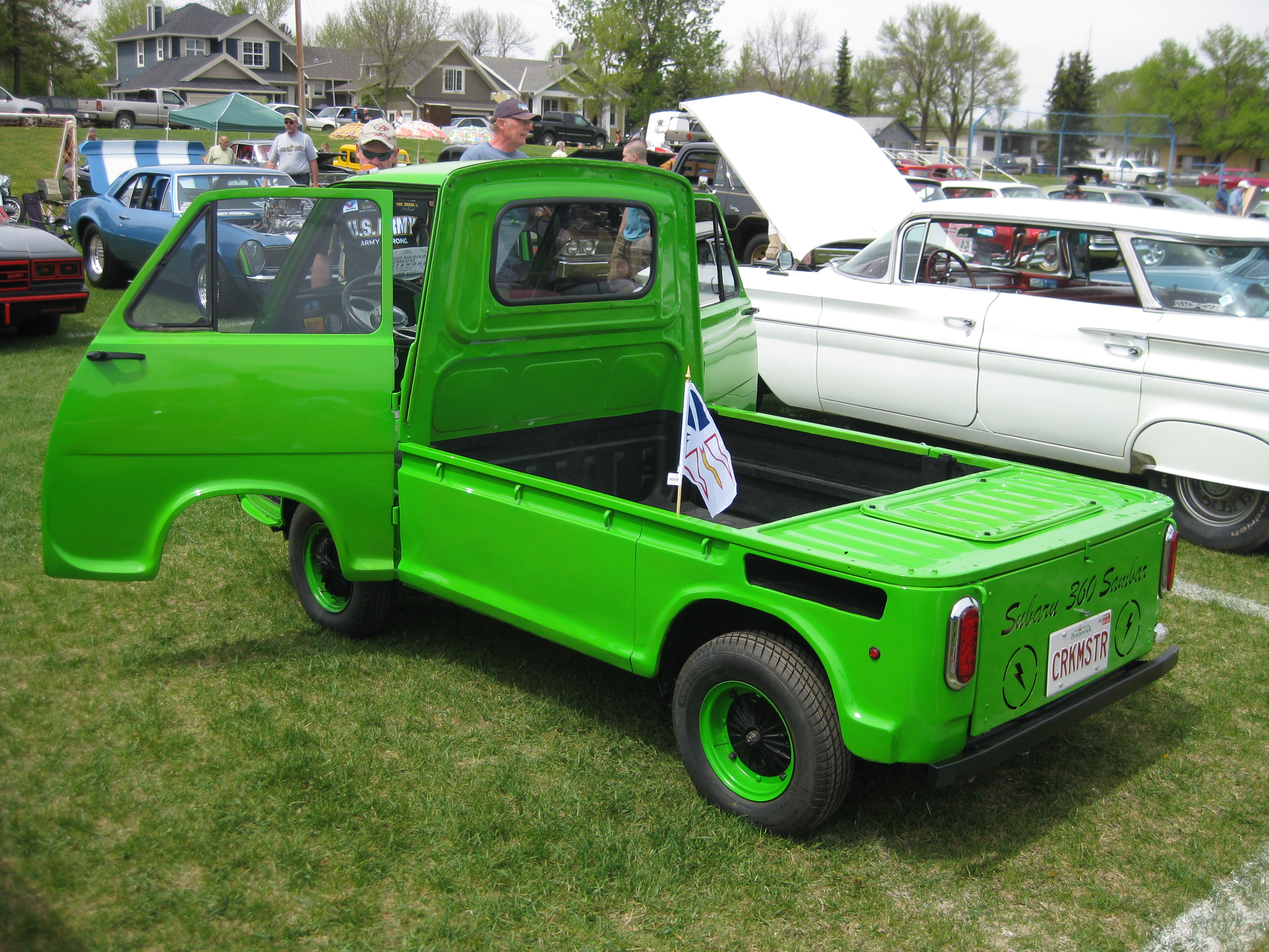 First 1969 Subaru 360 pickup truck I've seen. The owner believes it is the only truck in Canada (along with several sedans and a few vans).